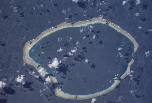 NASA astronaut image of Kilinailau (also known as Tulun or Carteret Islands), Papua New Guinea